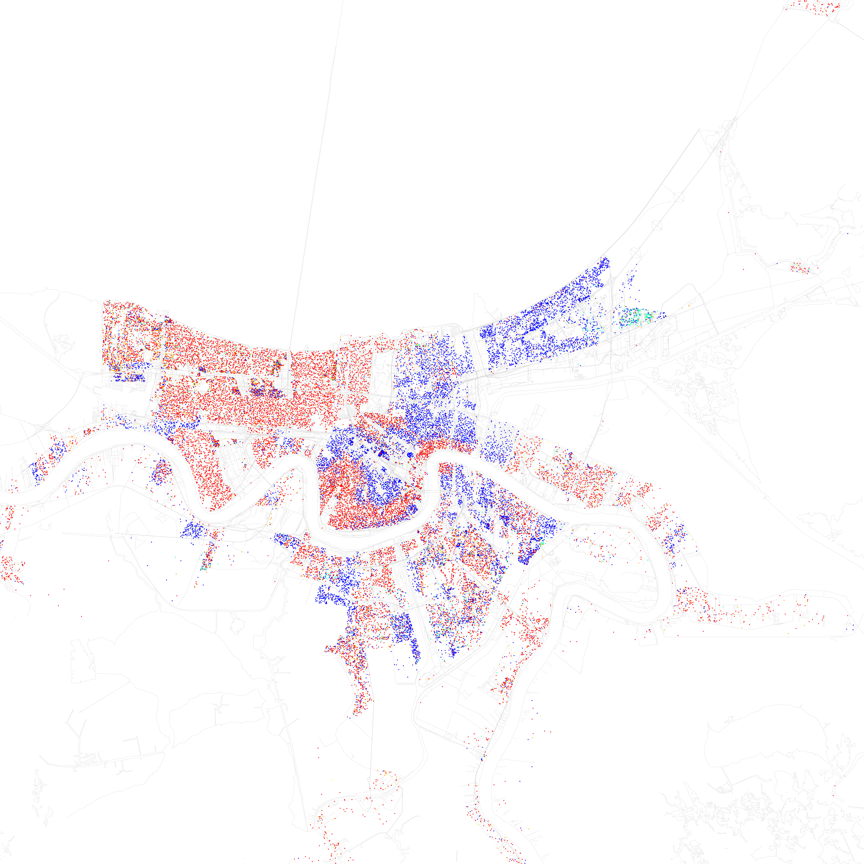 Maps of racial and ethnic divisions in US cities, inspired by Bill Rankin's map of Chicago, updated for Census 2010. Red is White, Blue is Black, Green is Asian, Orange is Hispanic, Yellow is Other, and each dot is 25 residents. Data from Census 2010. Base map © OpenStreetMap, CC-BY-SA